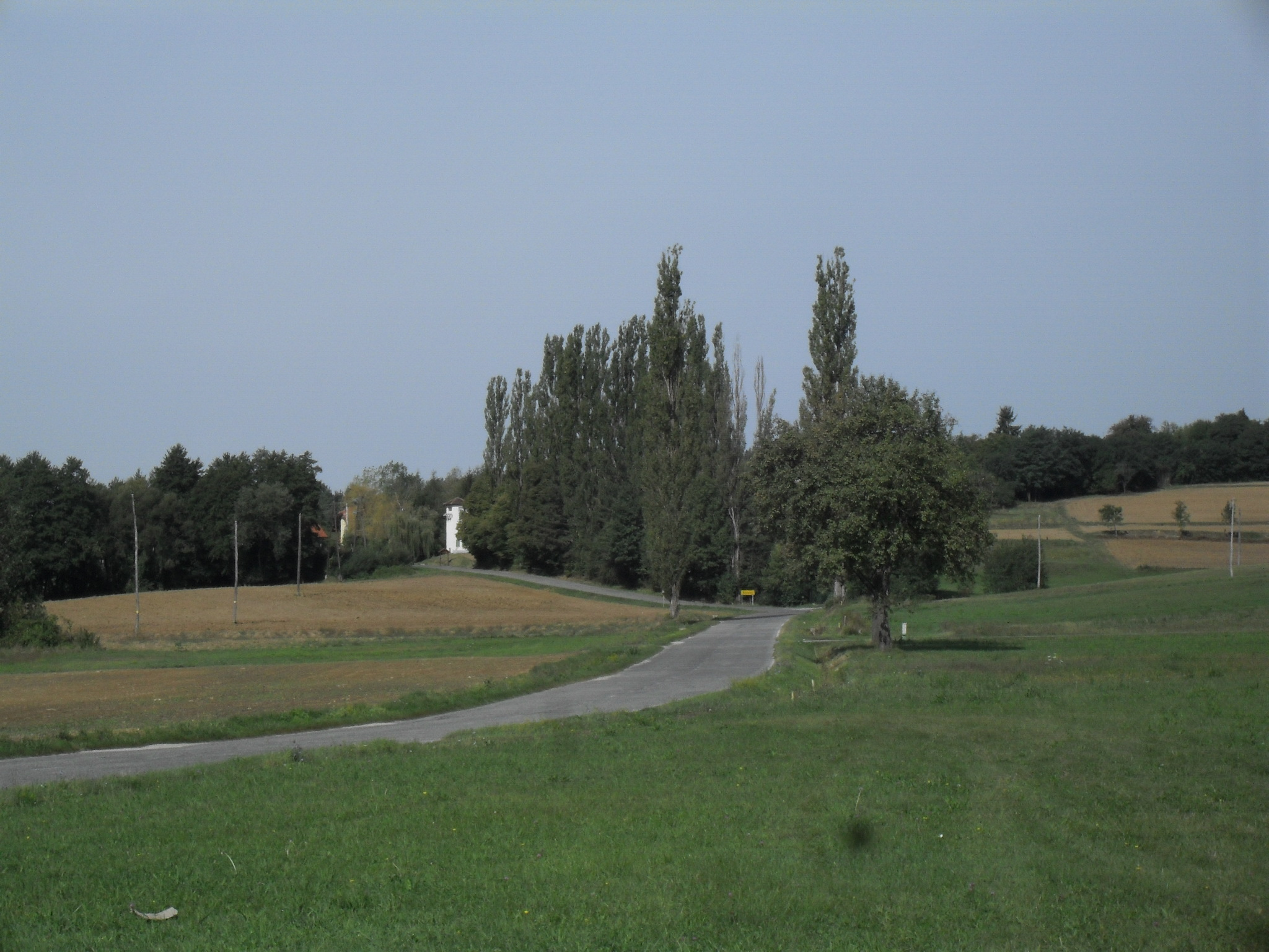 Ratkovci, Prekmurje